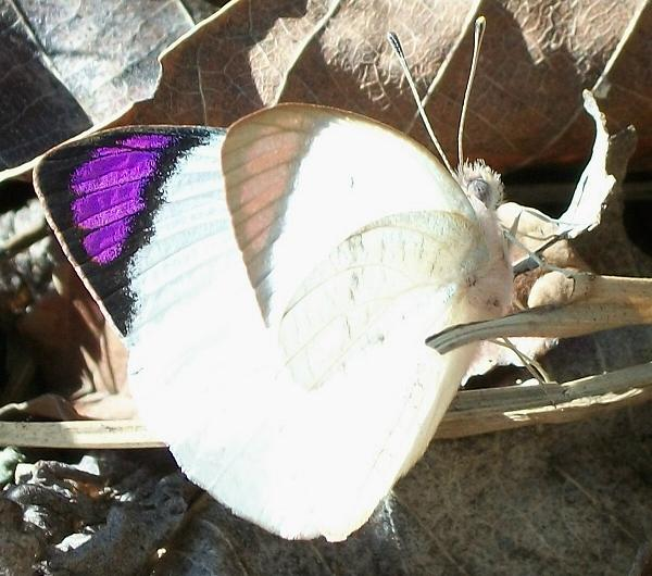 Male Colotis erone from Ilanda Wilds, Amanzimtoti, South Africa